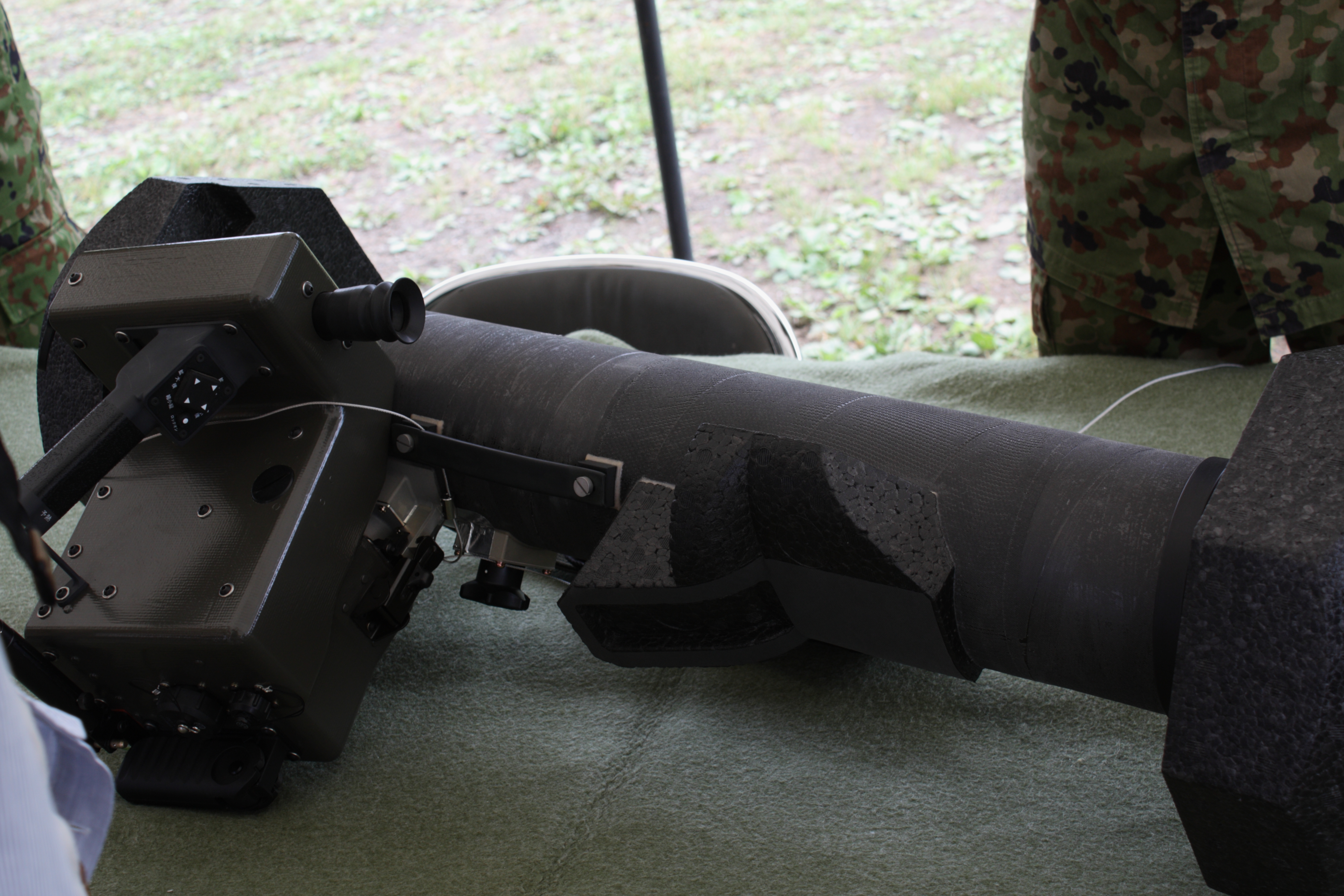 A static display of the Type 01 LMAT